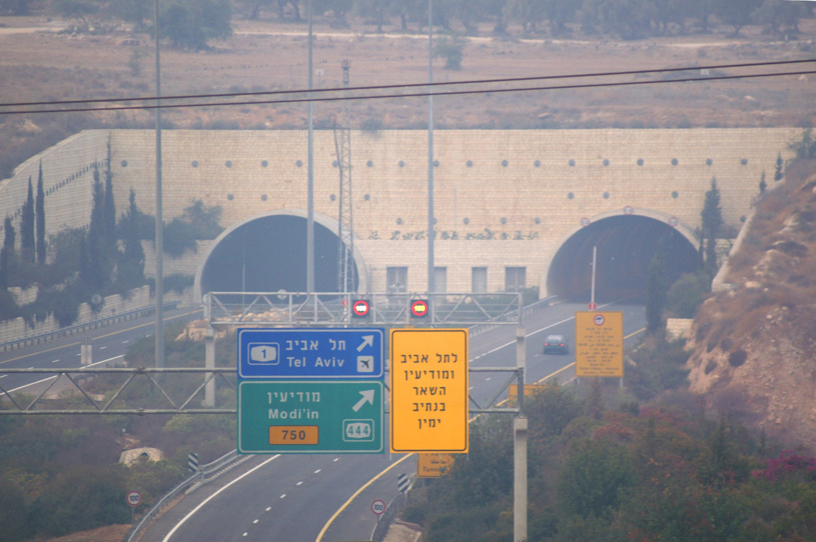 Transport in Israel